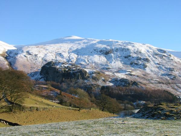 Castle Rock of Triermain and Watson's Dodd by Andrew Leaney, Summary Castle Rock of Triermain and Watson's Dodd by Andrew Leaney